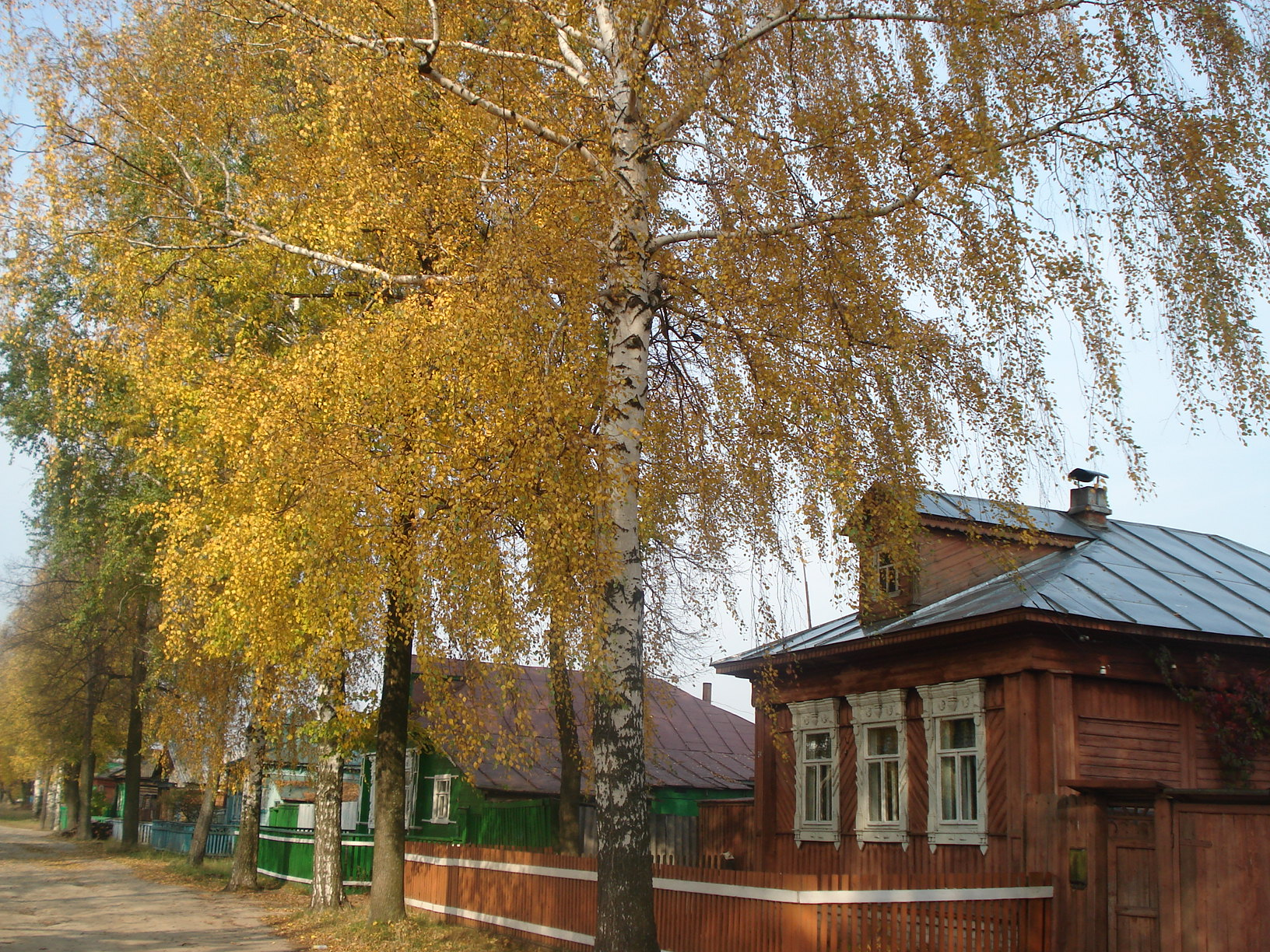 Tumbotino settlement, Pavlovsky district, Nizhny Novgorod region, Russia